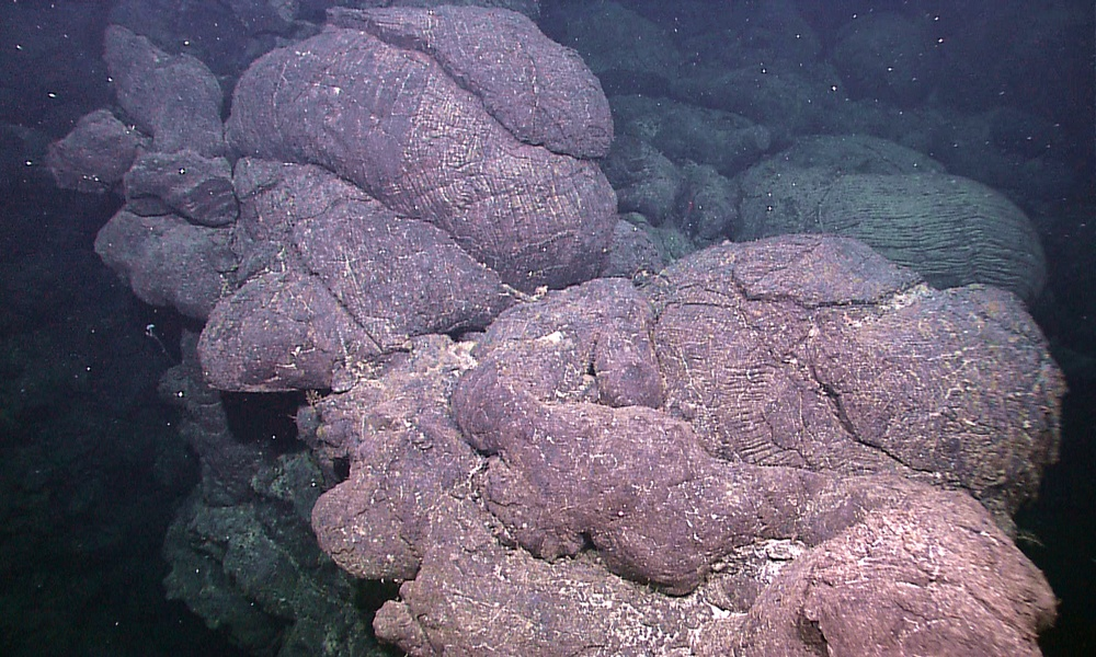 Pillow lavas at the edge of crevasse near the locus of active spreading. NOAA Okeanos Explorer Program, Galapagos Rift Expedition 2011, July 17.